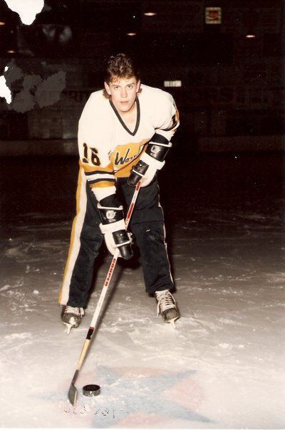 Team shot photo of Merritt Centennials forward Bill Birks at the Nicola Valley Memorial Arena. Taken during the 1986-87 season, January 12, 1987.